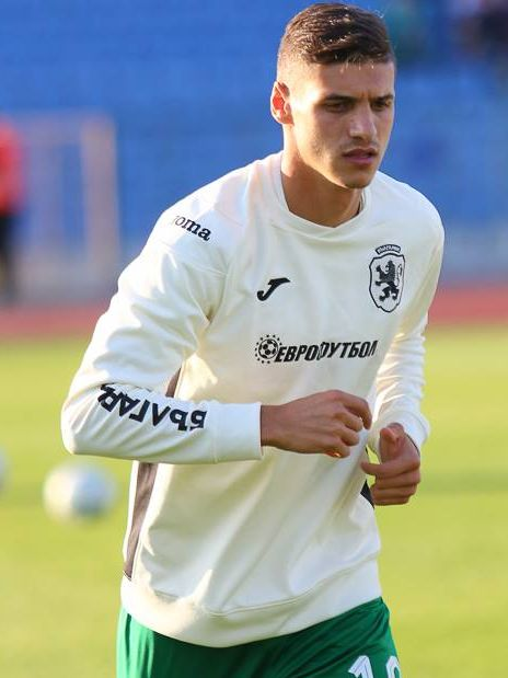 Kiril Vasilev Despodov (Bulgarian: Кирил Василев Десподов; born 11 November 1996 in Kresna) is a Bulgarian footballer who plays as a winger or striker for CSKA Sofia